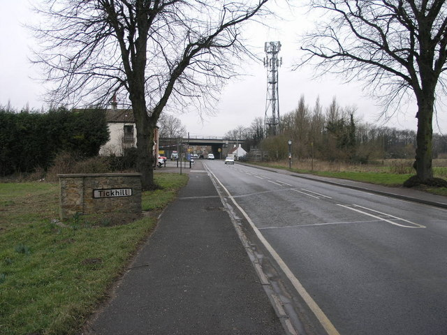 Tickhill from the East. The eastern approach to Tickhill on the A631 passes beneath the A1(M). Access to the A1 is over 3 miles away at Blyth island.